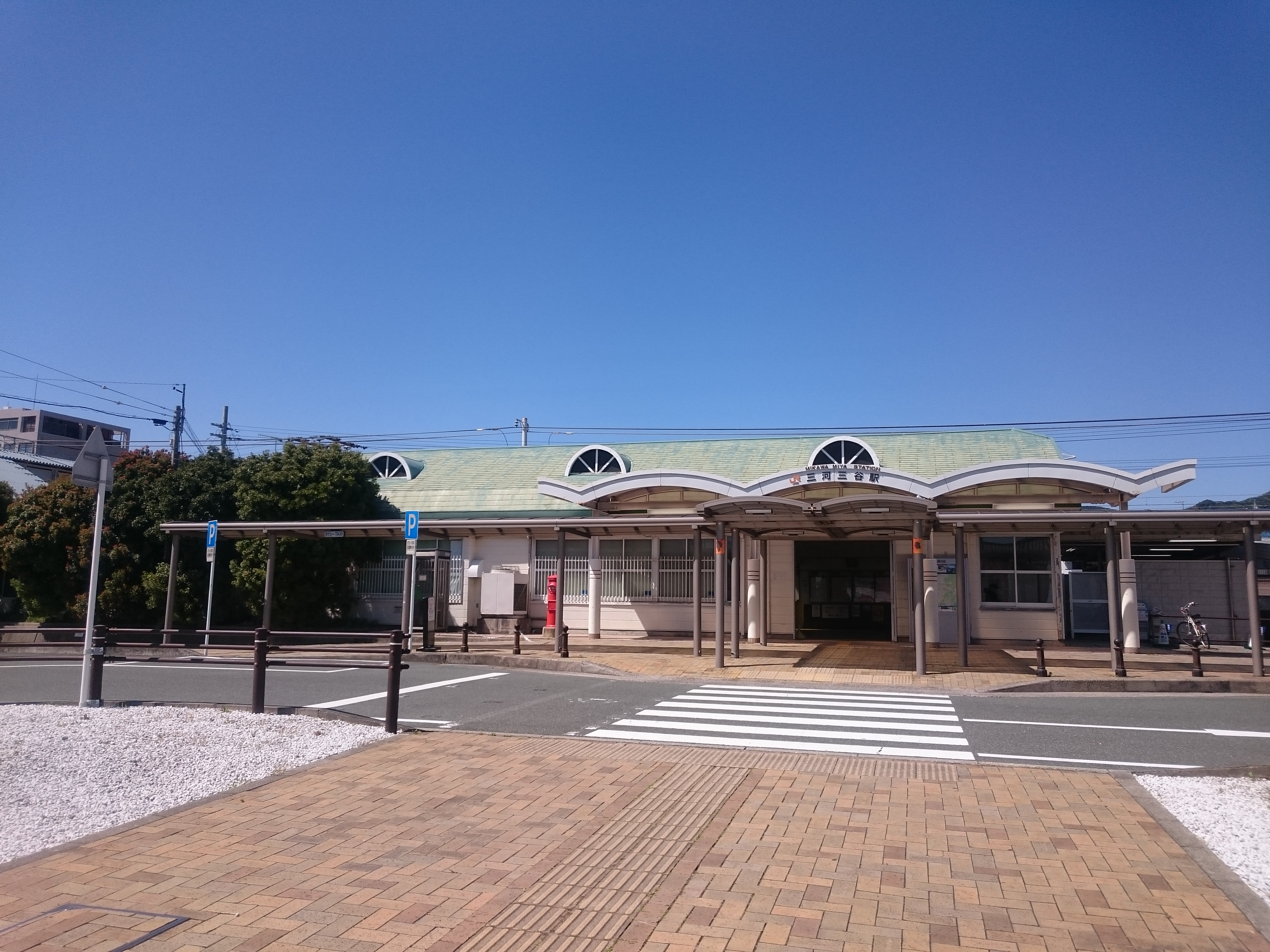 Mikawa-Miya Station (三河三谷駅), located at 13 Ueno, Miya-cho, Gamagori, Aichi, Japan Sony Xperia Z3